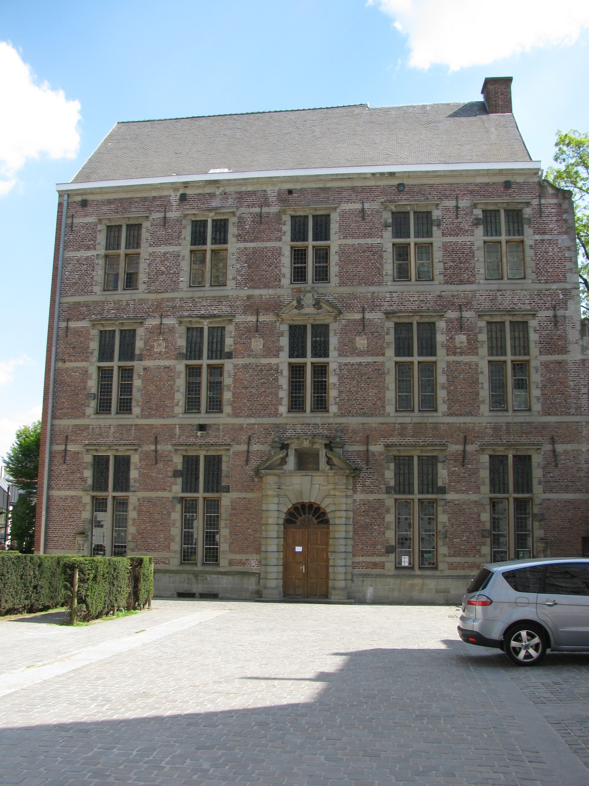 Halle, Belgium on 2011-04-19